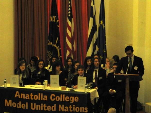 Mr. Yee, Consul General of the United States of America to Thessaloniki, speaks at the opening ceremony of the Anatolia College Model United Nations conference in Thessaloniki, Greece.